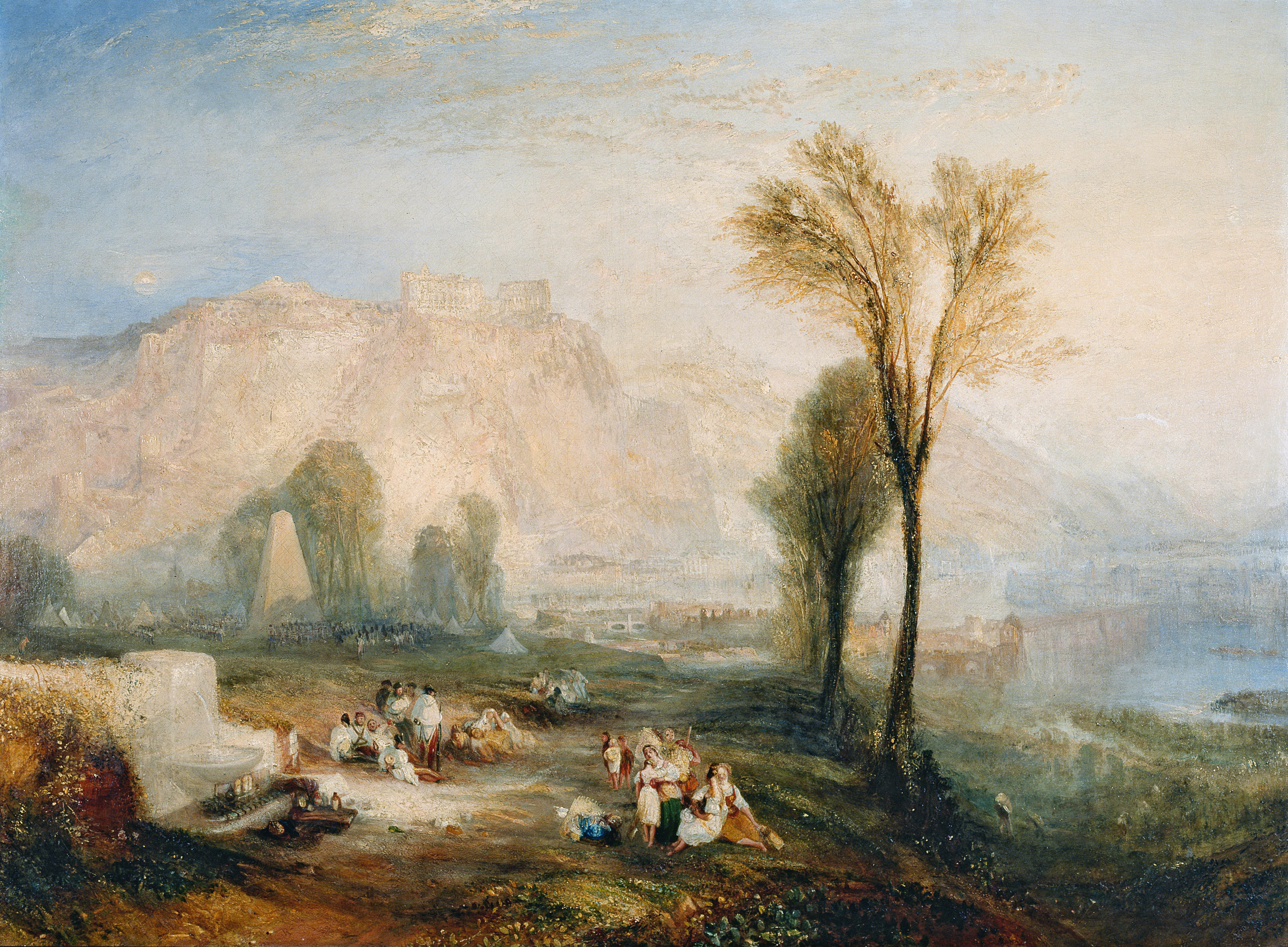 William Turner, View of Ehrenbreitstein, or The Bright Stone of Honour (Ehrenbreitstein) and the Tomb of Marceau, from Byron's 'Childe Harold' (1835). Private collection.